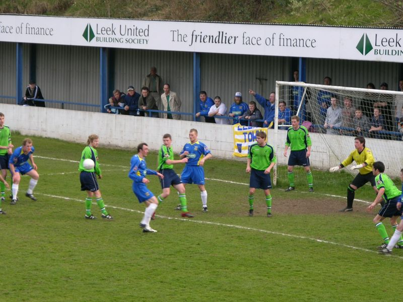 Leek Town F.C. v Matlock Town F.C. Image taken from Flickr, original photographer Brian Spittles